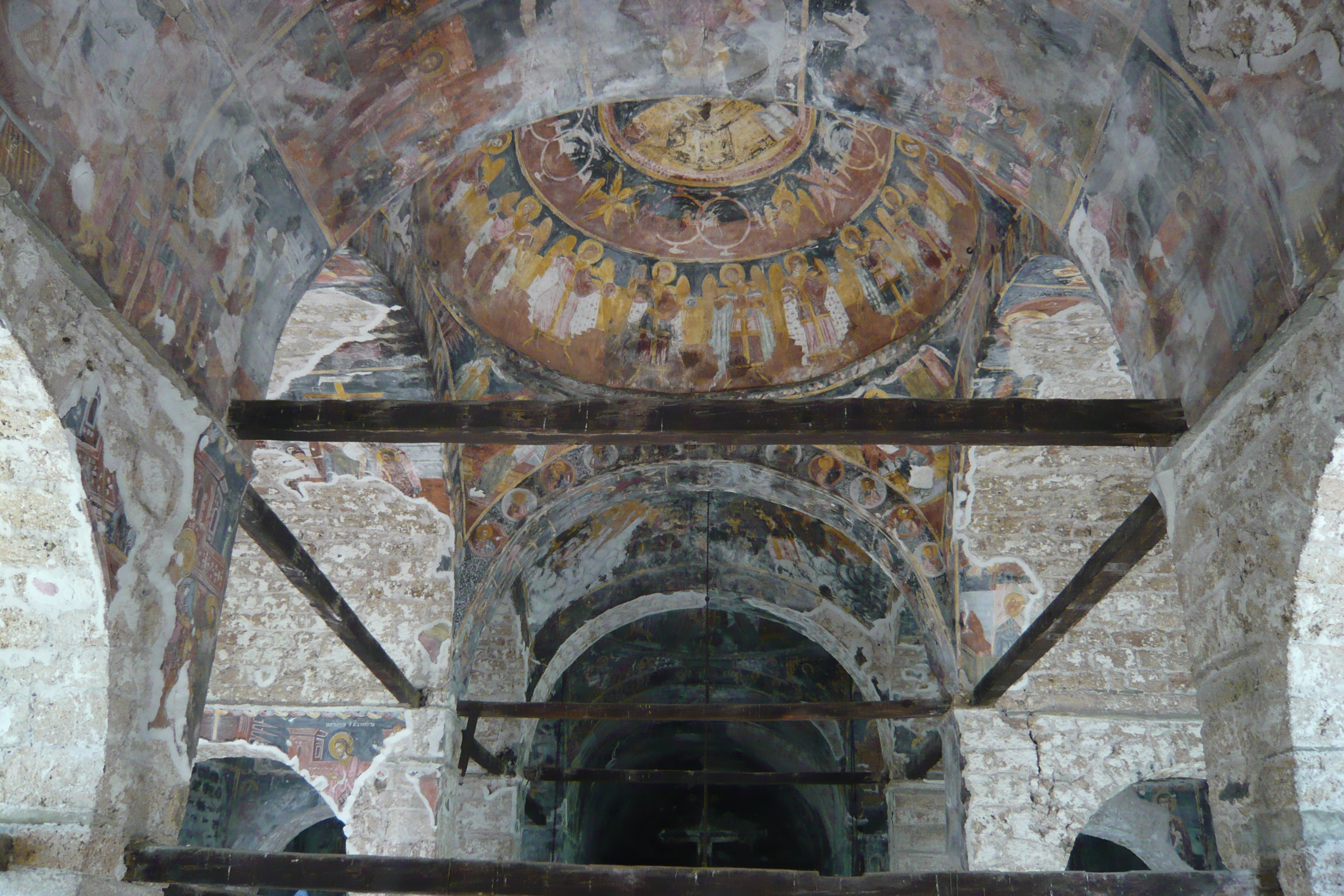 St. Mary's Church, Voskopojë (Moscopole)